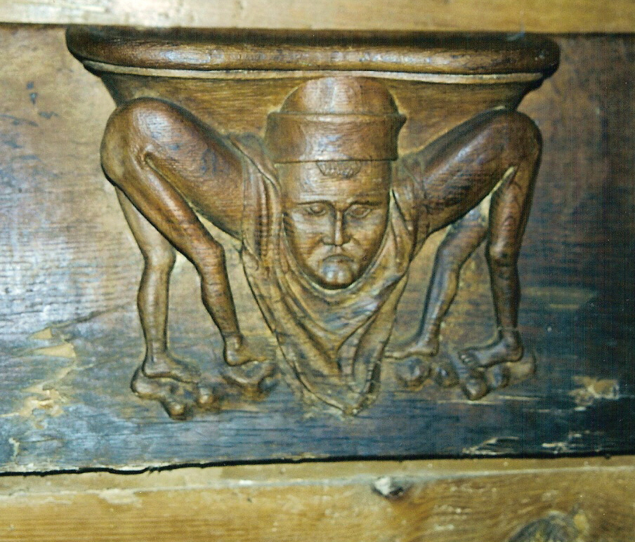 Misericord from church of Puycelci (81) FRANCE